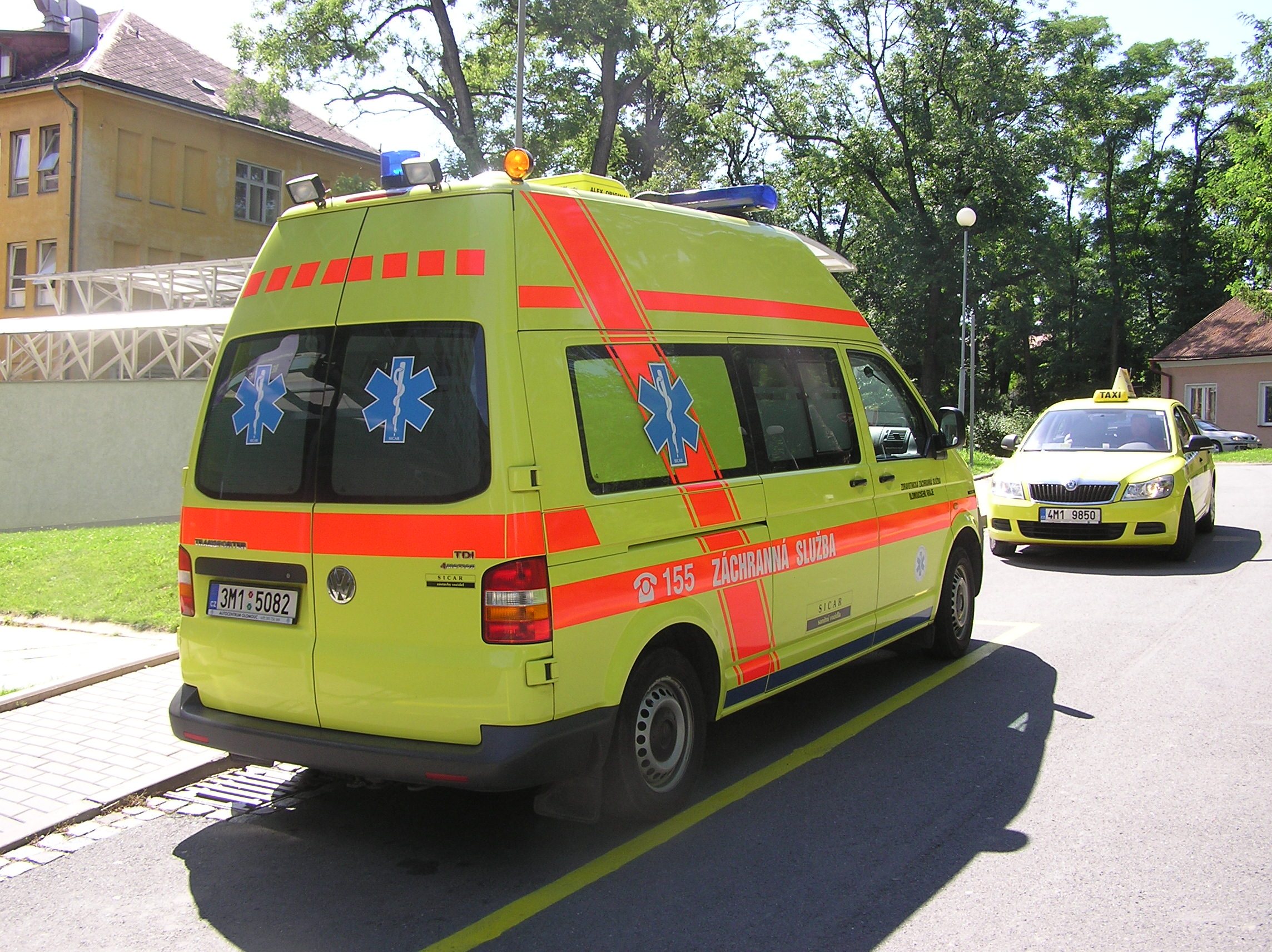 Ambulance vehicle of the Emergency Medical Services of the Olomouc Region, Czech Republic